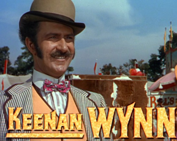 Cropped screenshot of Keenan Wynn from the trailer for the film Annie Get Your Gun